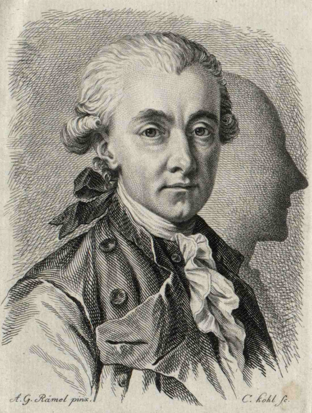 Portrait Franz Josef (Joseph) von Thun und Hohenstein (1734–1800 or 1801), freemason and faith healer